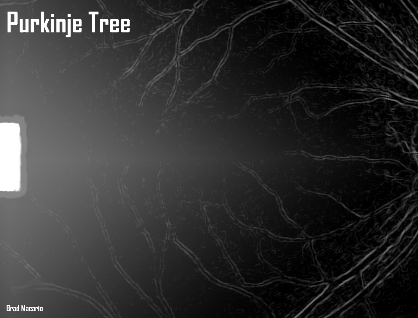 First person view of a Purkinje Tree while sitting in a slit lamp/biomicroscope.